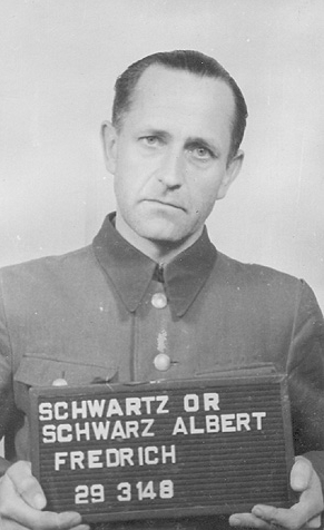 Albert Schwartz was SS-Hauptsturmführer and Labour allocation leader in the concentration camp of Buchenwald. In the Buchenwald Camp Trial (part of the Dachau Trials) he was sentenced to death by hanging (later modified to lifetime imprisonment).